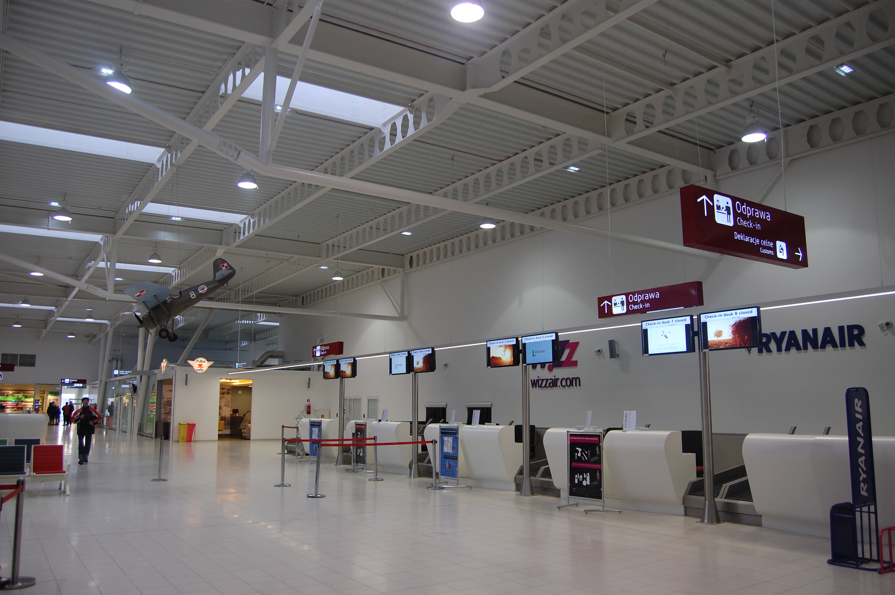 Lublin Airport, 2013-01-09